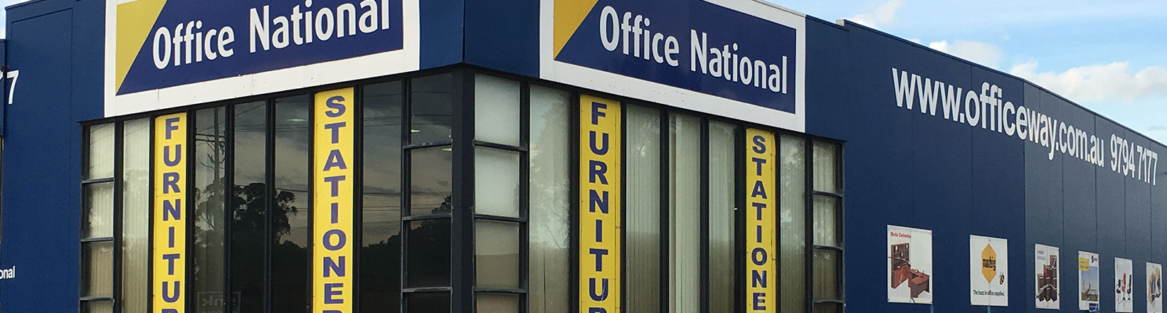 photo of an Office National store in Australia